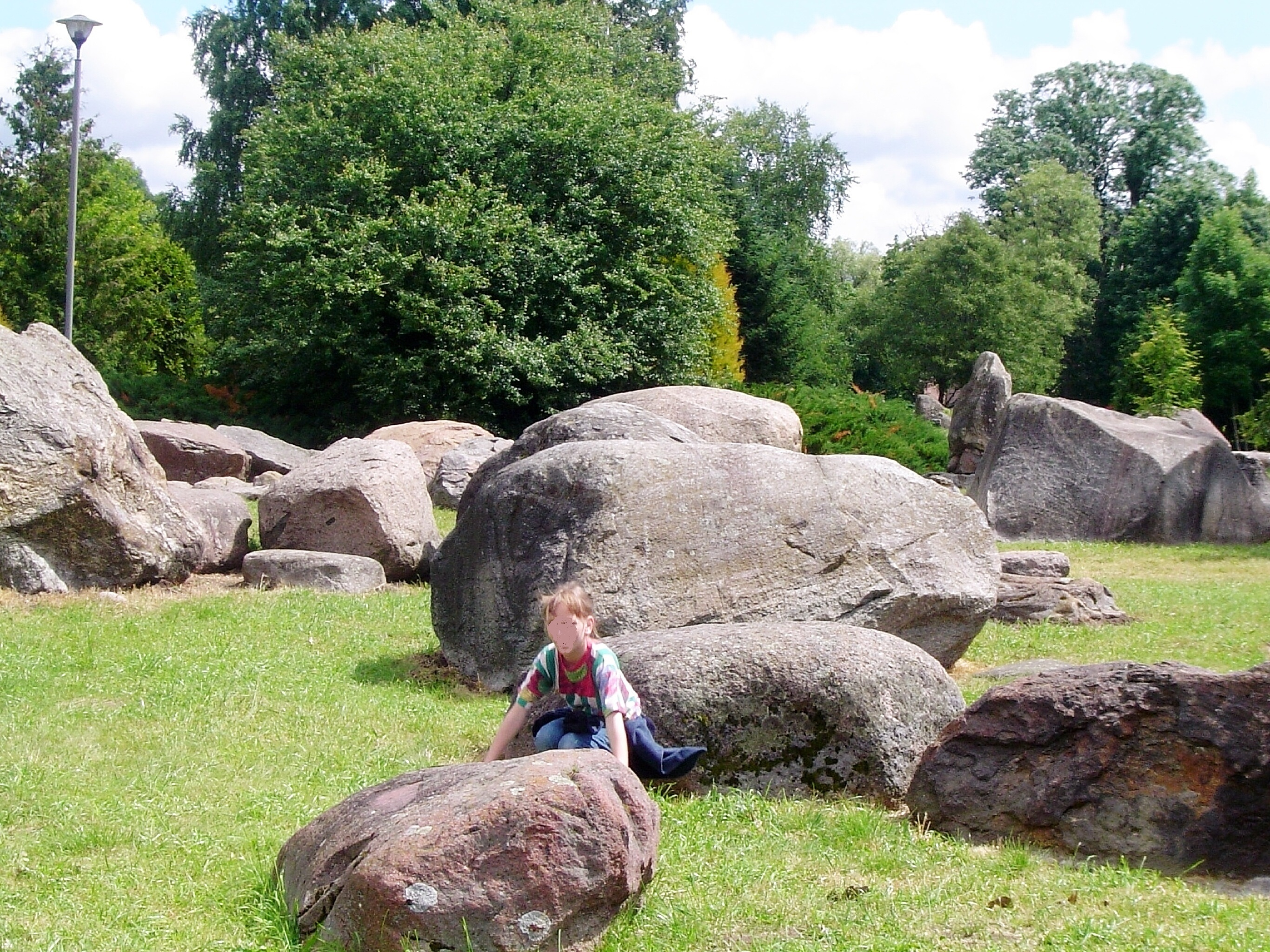 Coolection of boulders (Boulders Museum) in Mosėdis, Lithuania.